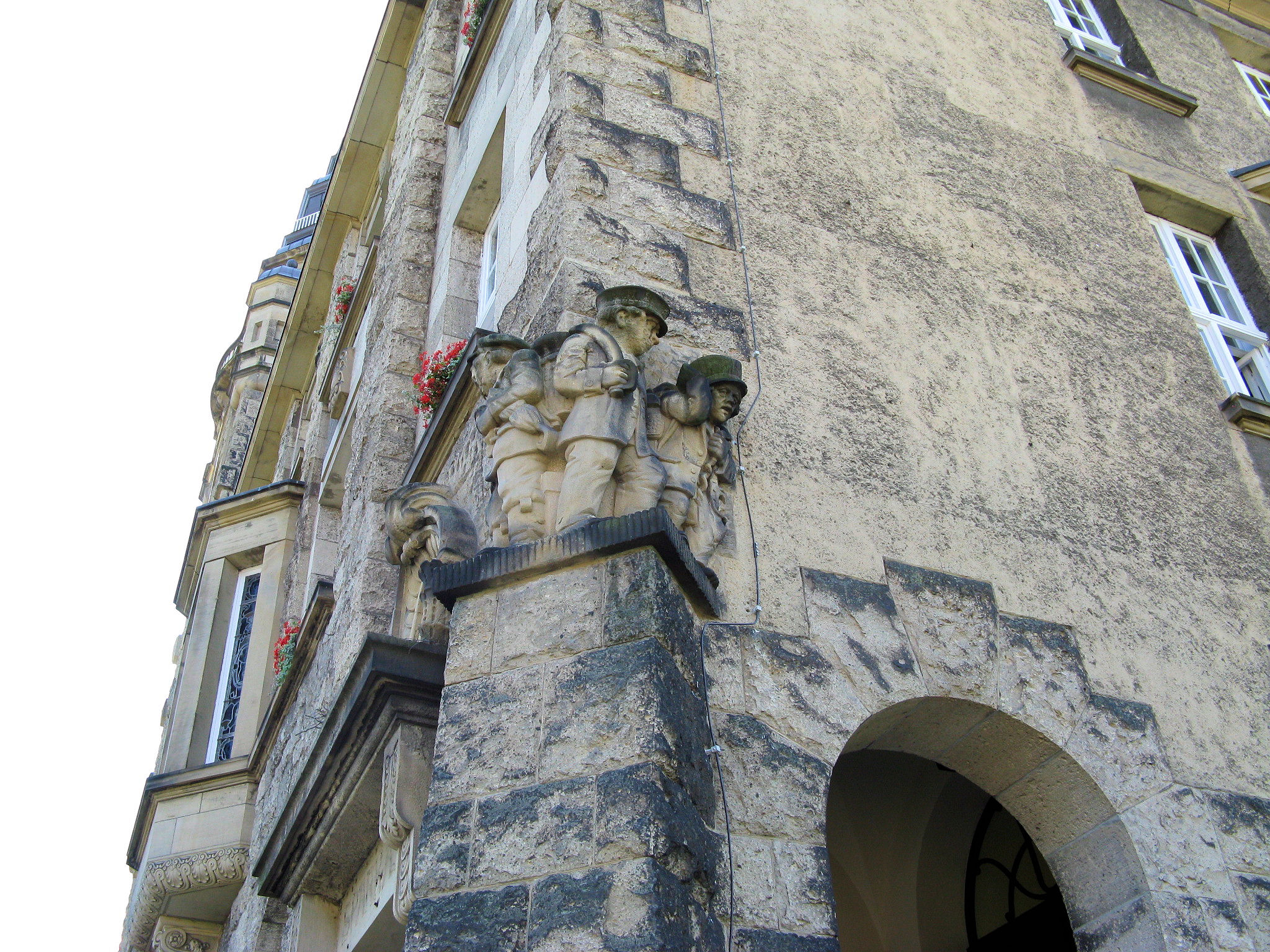 Town hall in Wittenberge in Wittenberge, disctrict Prignitz, Brandenburg, Germany